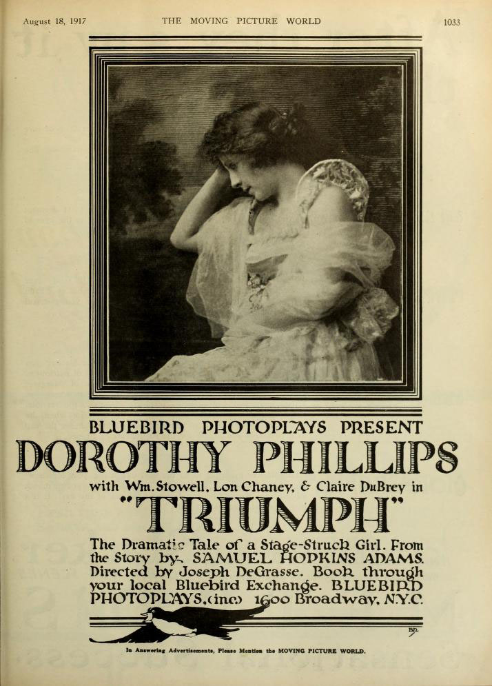 Advertisement in Moving Picture World, August 1917 for the American drama film Triumph (1917) with Dorothy Phillips.